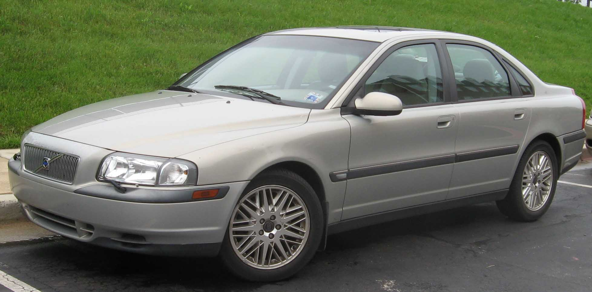 1999-2003 Volvo S80 photographed in College Park, Maryland, USA.